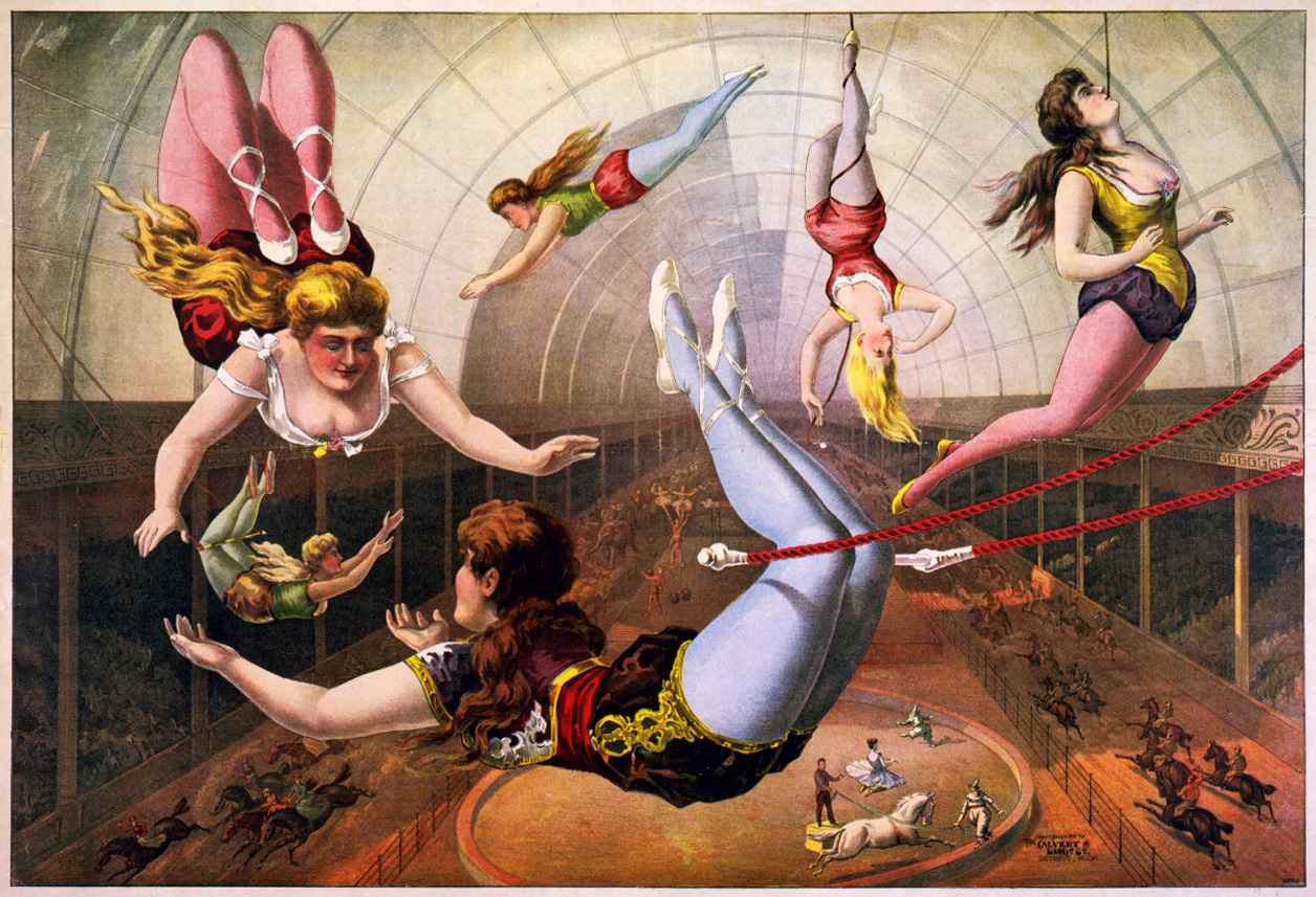 Trapeze artists in circus, lithograph by Calvert Litho. Co., 1890. Edited digital image from the Library of Congress, reproduction number: LC-USZC4-2091.